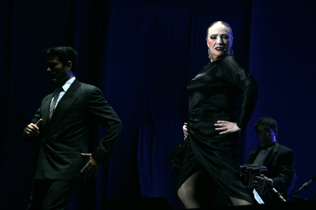 "Tango Argentino" (Claudio Segovia). Song: "Bahía Blanca" (C. Di Sarli). Dancers: Carlos & María Rivarola. At the Obelisco, Buenos Aires, feb 2011. Foto: Estrella Herrera